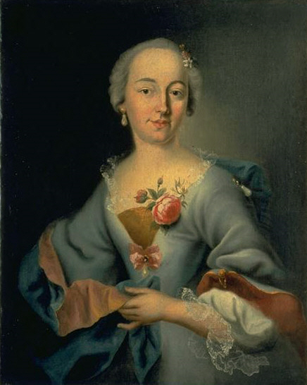 Portrait of Dorothea Herrliberger